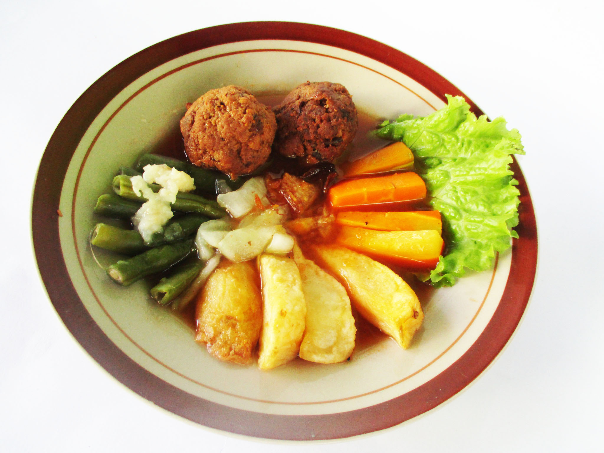 Selat Solo is a Javanese dish that has the influence of European dishes and originates from Solo, Central Java. This food consists of boiled beef in a thin sauce made from garlic, vinegar, sweet soy sauce, water and seasoned with nutmeg and pepper. This food is then served with boiled eggs and vegetables such as beans, potatoes, tomatoes, lettuce, cucumber, cabbage or broccoli and carrots, and a little mustard or mayonnaise is added to the side.